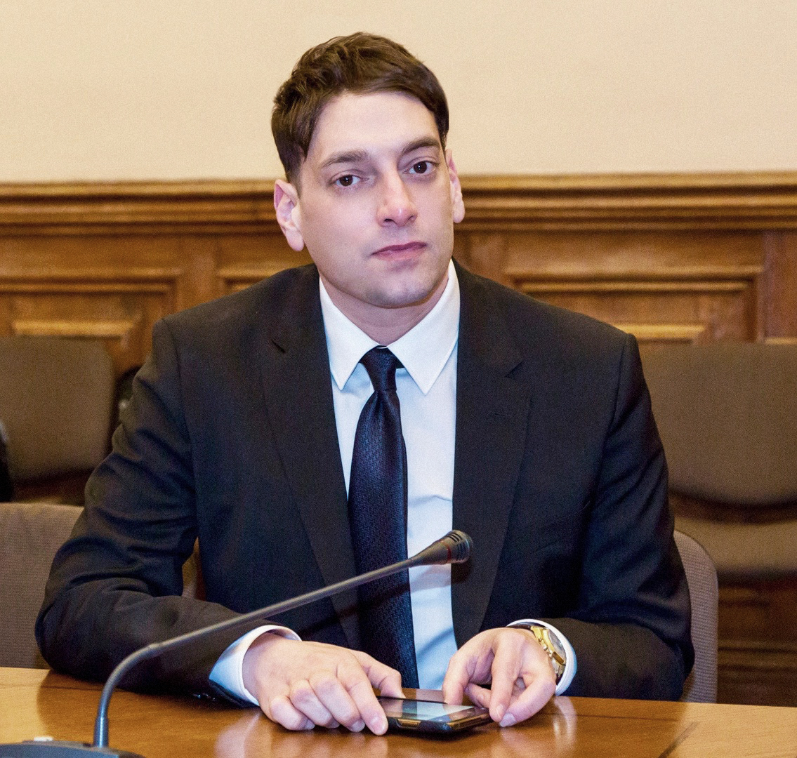 Amir G Kabiri